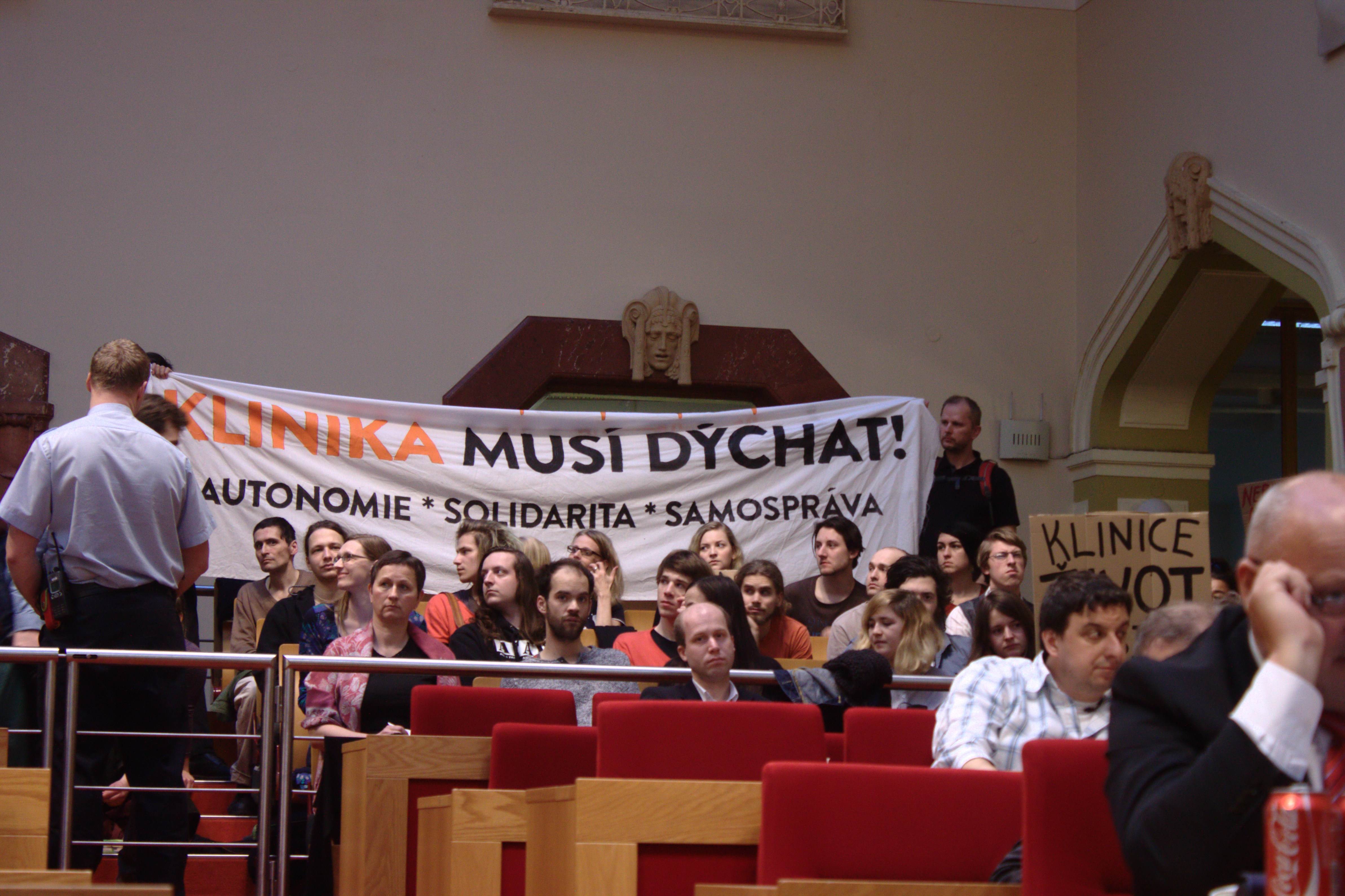 Personality rights warningAlthough this work is freely licensed or in the public domain, the person(s) shown may have rights that legally restrict certain re-uses unless those depicted consent to such uses. In these cases, a model release or other evidence of consent could protect you from infringement claims.